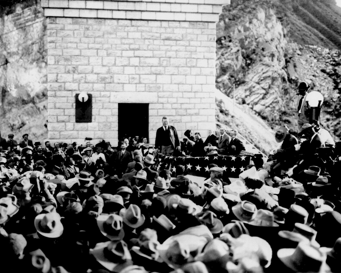 Dedication ceremonies of Roosevelt dam [Ariz. Terr.], President Roosevelt speaking, March 18, 1911.